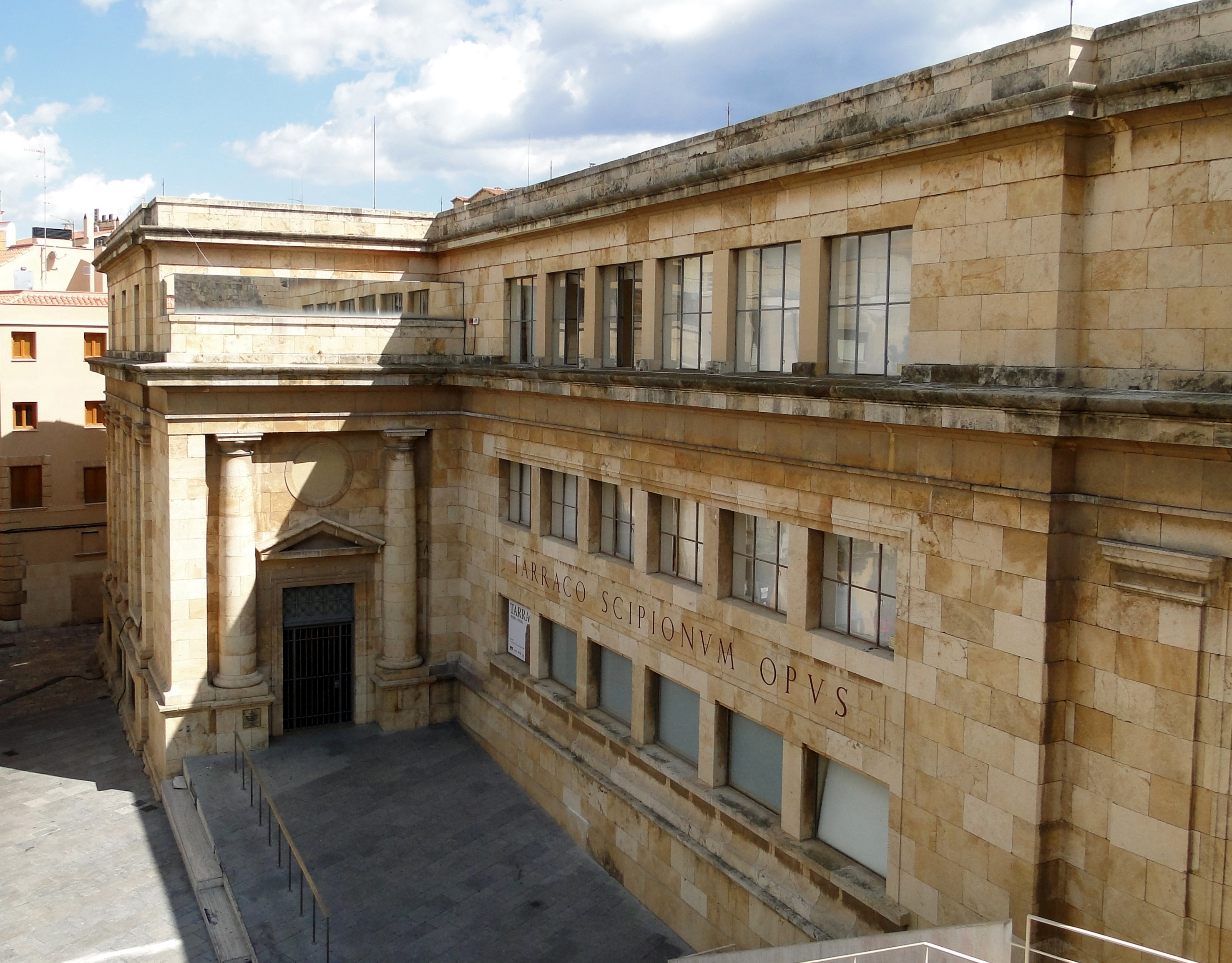 Archaeological museum of Tarragona, Catalonia, Spain